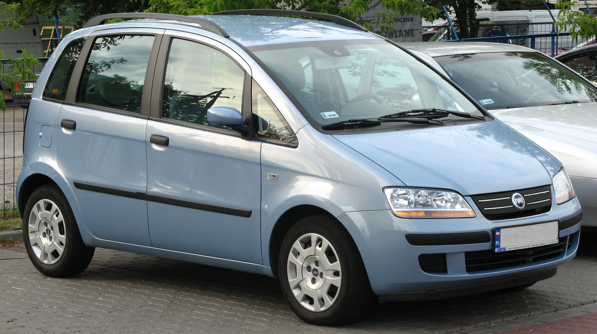 Fiat Idea, light blue, photographed in Warsaw